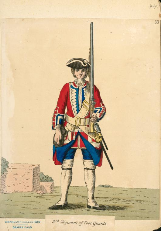 Print of a 3rd Foot Guards soldier, 1742 (now Scots Guards).